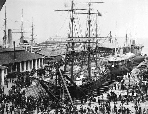 Victoria Dock at Tanjong Pagar, a naval and commercial base in the British colony of Singapore.